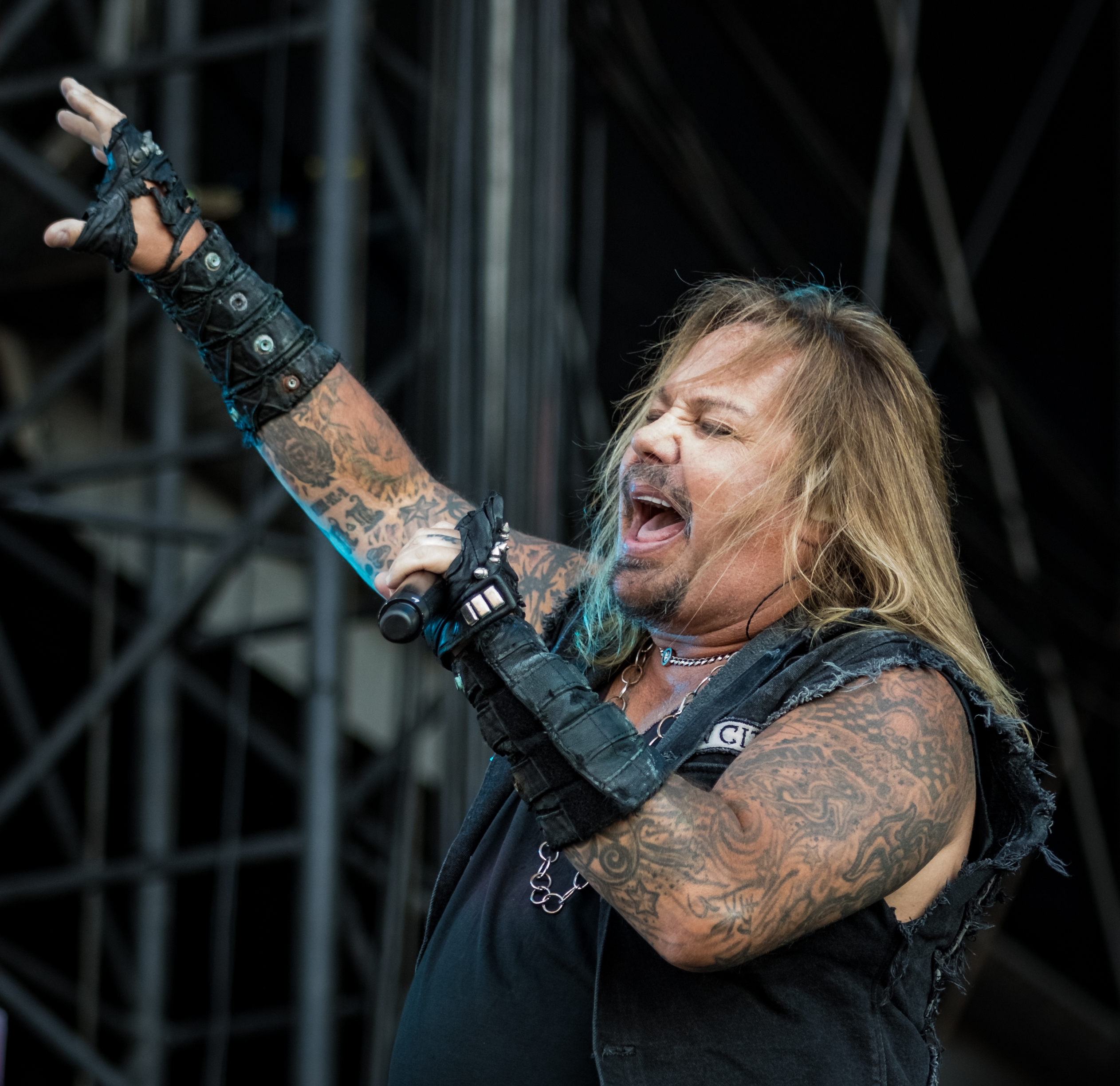 Vince Neil - Wacken Open Air 2018